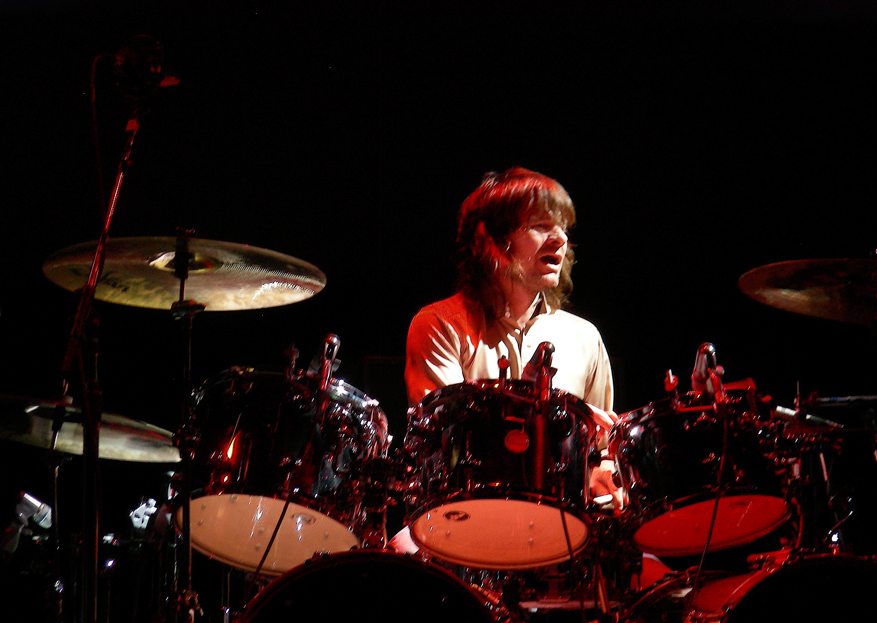 The Who Philadelphia PA Oct. 26, 2008 Zak Starkey, drummer for the Who